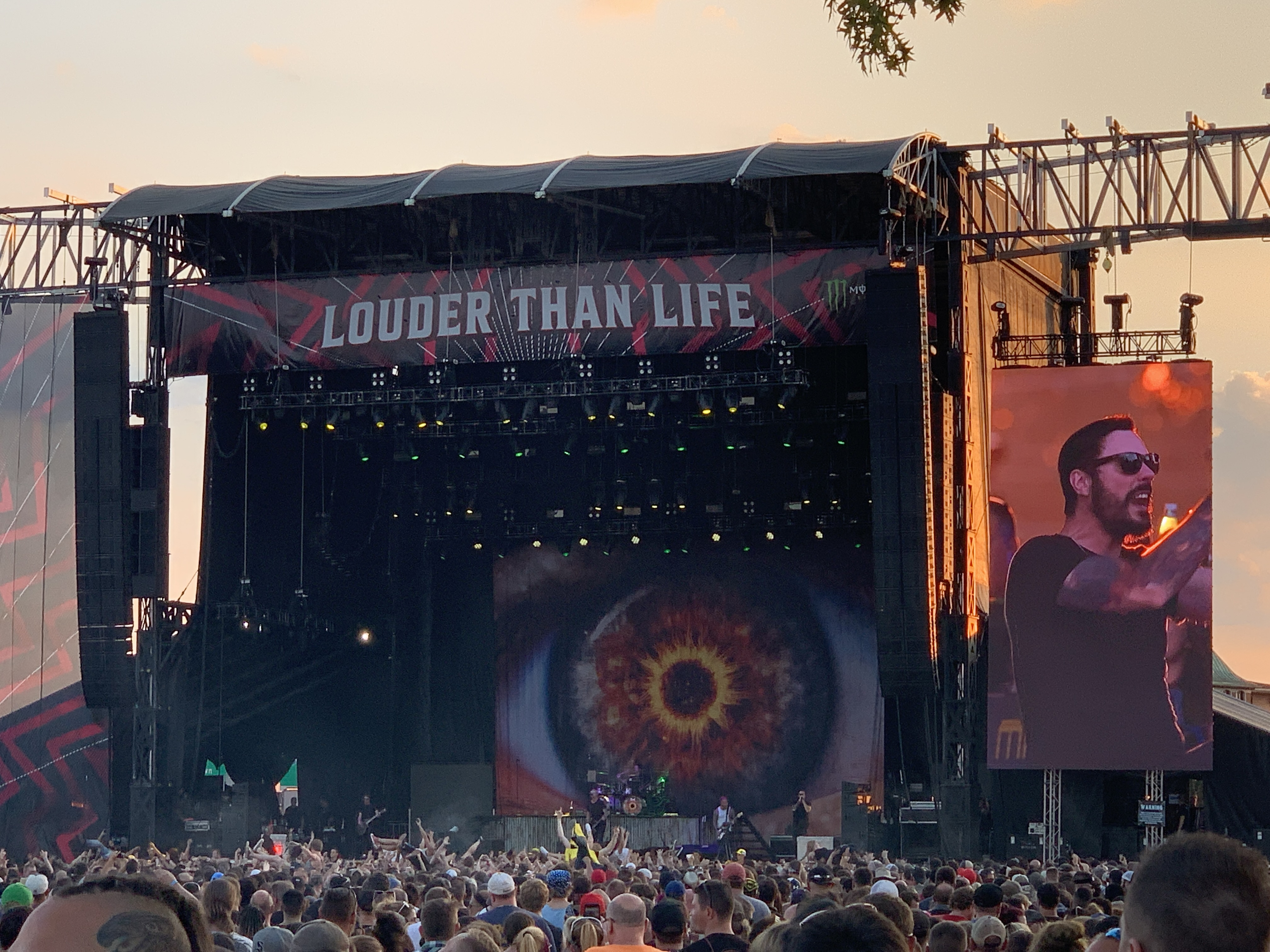 American rock band Breaking Benjamin performing during the third day of the 2019 edition of the Louder Than Life music festival (Sunday, September 29th, 2019) at the Highland Festival Grounds at the Kentucky Exposition Center in Louisville, KY, USA.